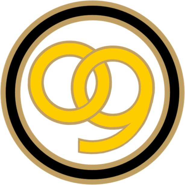 Logo of Beuthener SuSV 09, German football team.